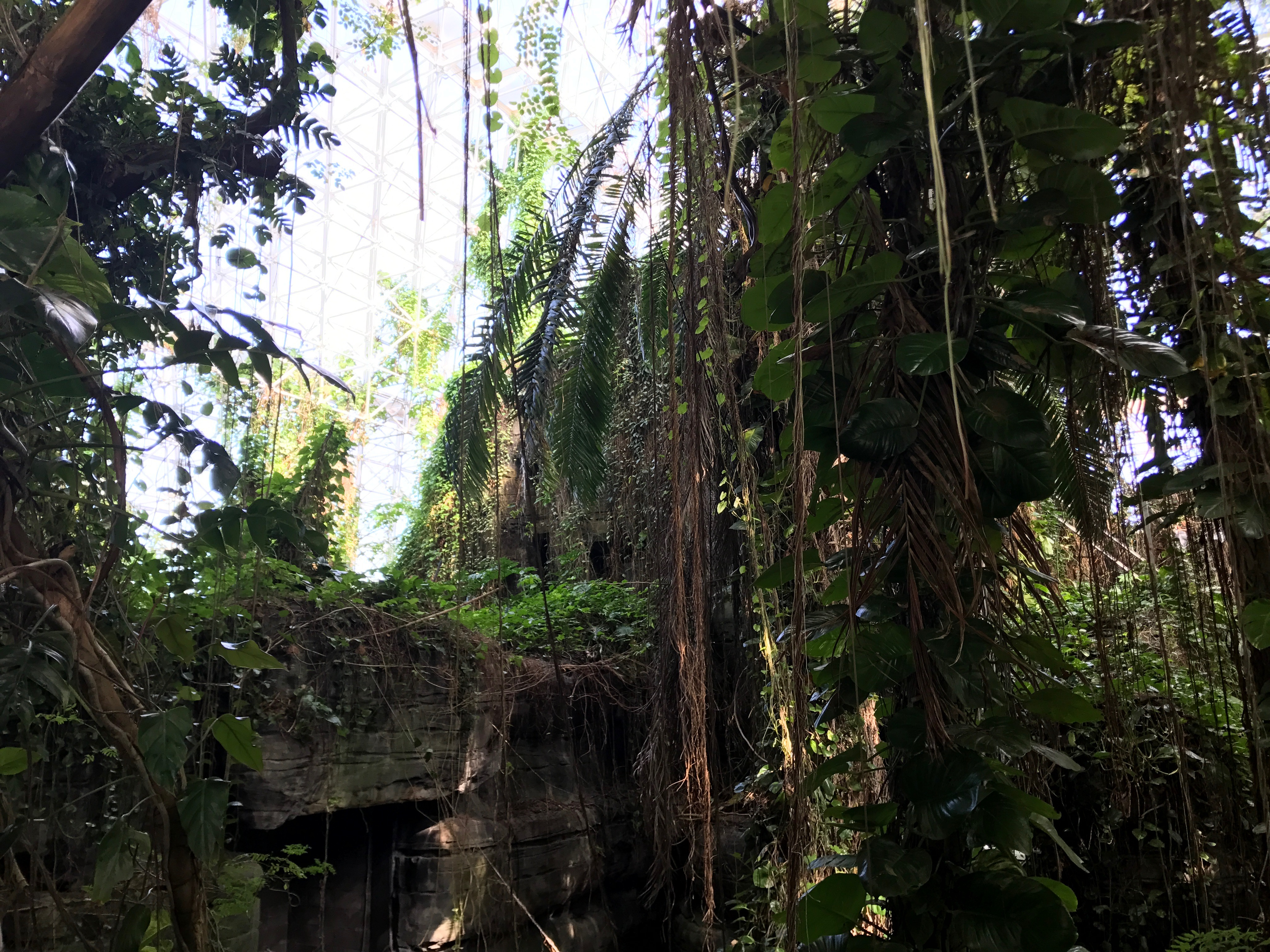 The rainforest biome in Biosphere 2 (2/2017)